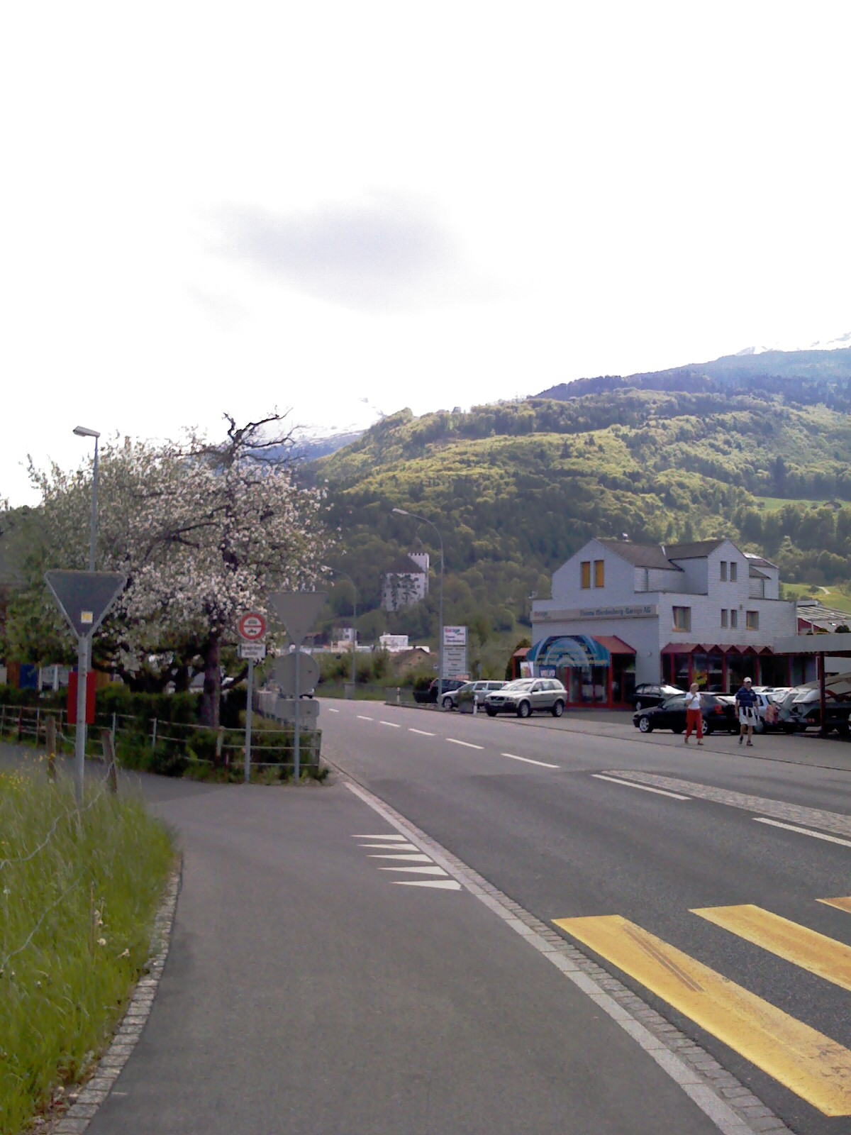 Comunity of Grabs, Canton St. Gallen, View to Castle Werdenberg